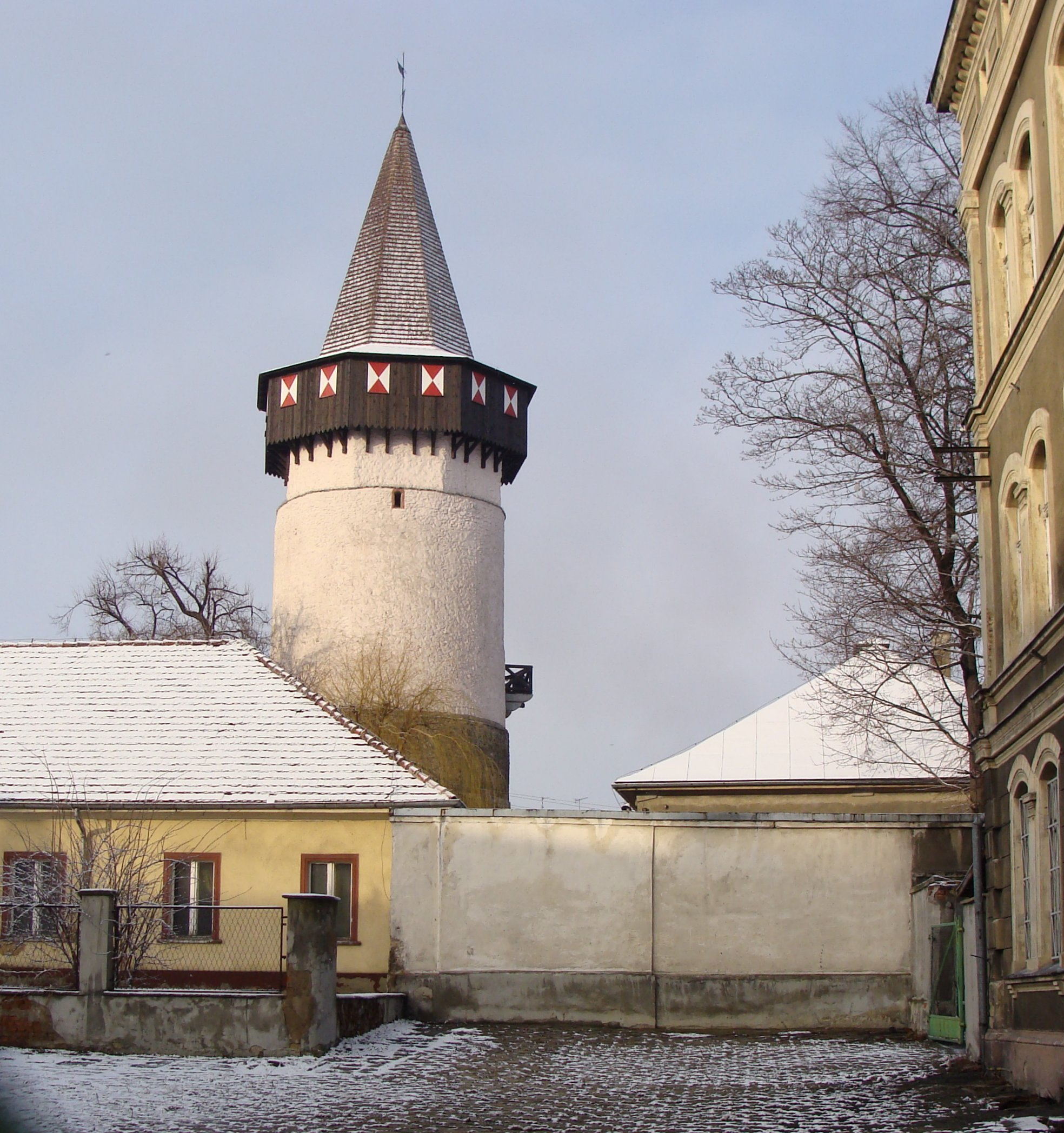 Prudnik (Neustadt in Oberschlesien), Silesia – castle tower